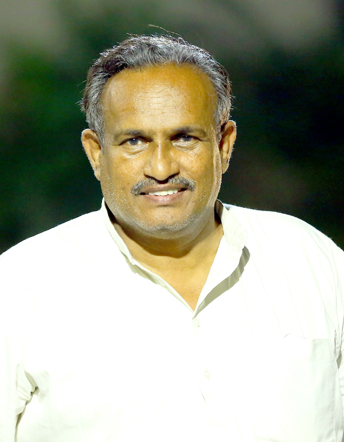 వేణు పొల్సాని